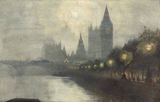 Westminster by George Hyde Pownall (died 1932)